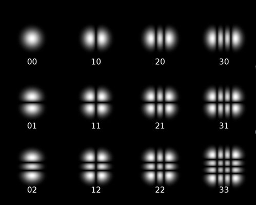 Laser modes with square mirrors